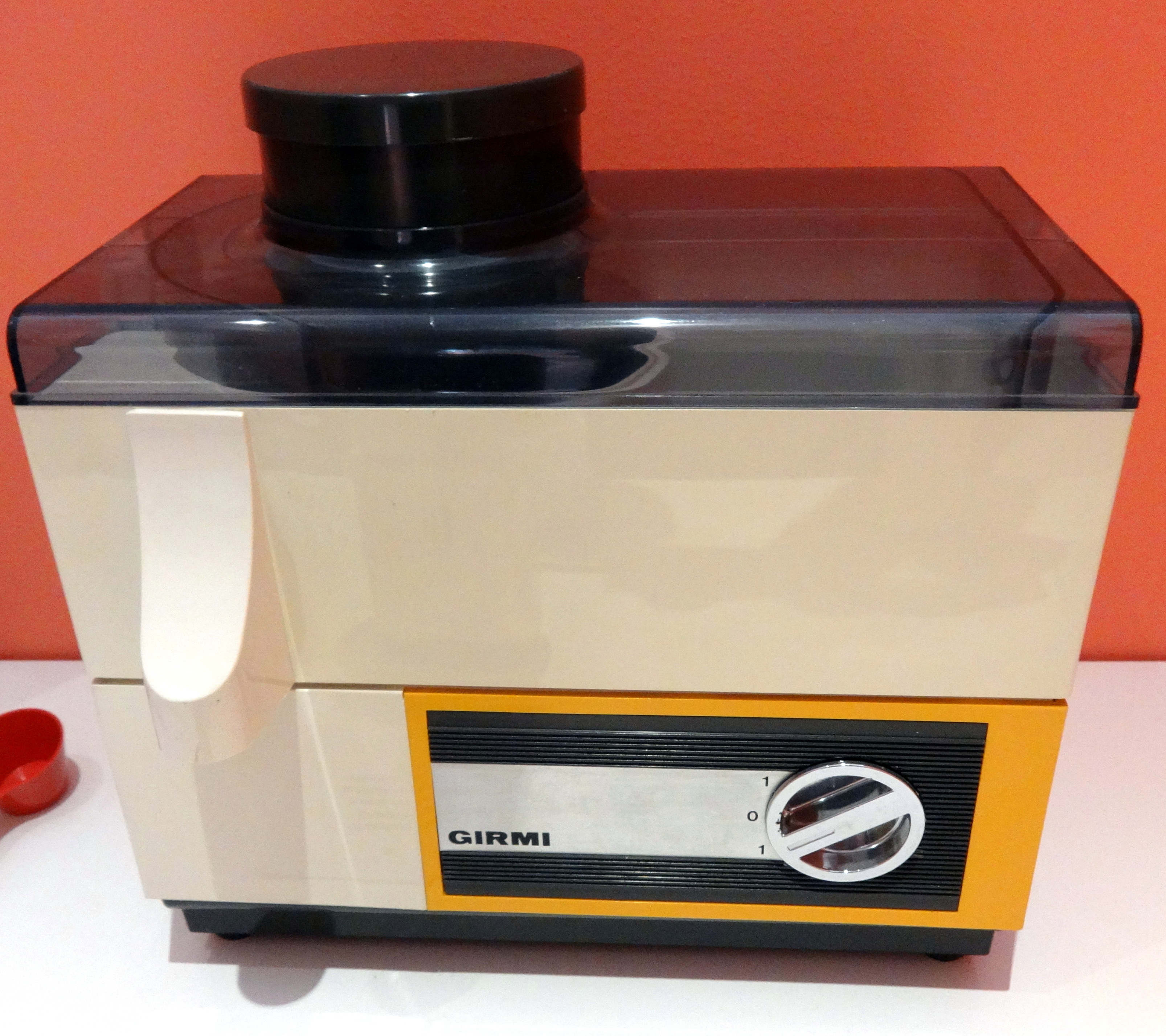 Juice extractor by Girmi, built in 1974. On display at the industrial museum Omegna, at Lake Orta, Italy in autumn